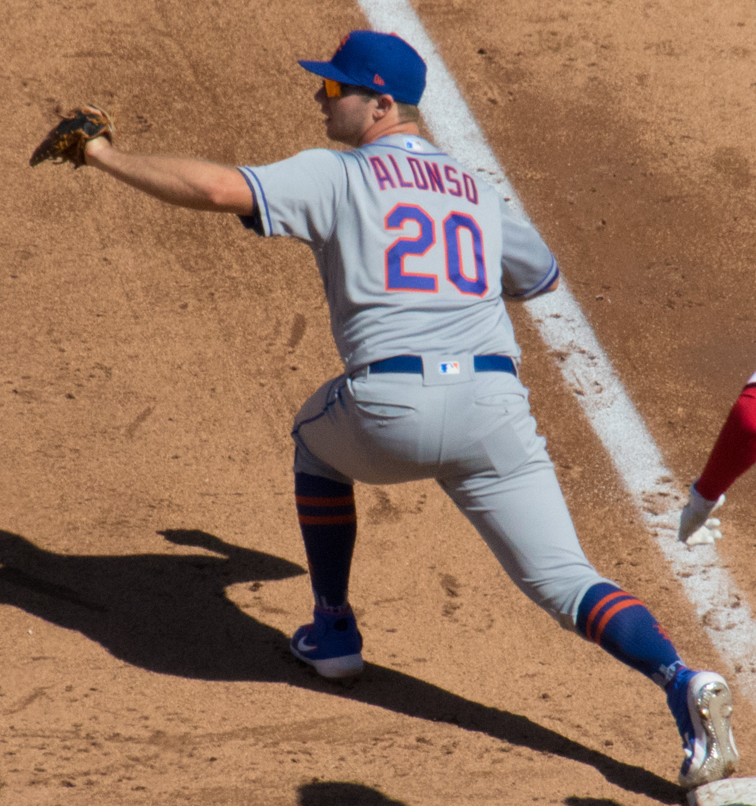 Anthony Rendon of the Washington Nationals runs to first base, covered by Pete Alonso of the New York Mets, during a 2019 game at Nationals Park in Washington, D.C.